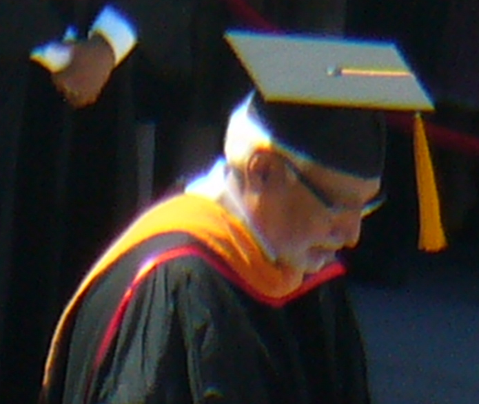 Abbas El Gamal